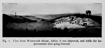 image in book Humphry Repton (1752-1818), The Art of LANDSCAPE GARDENING, page 80